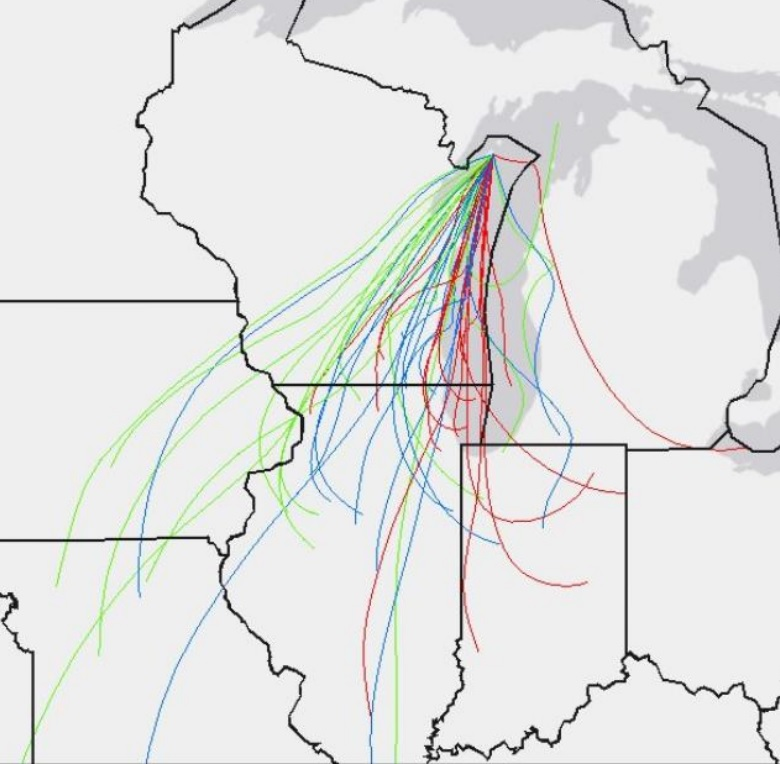 Red lines depict trajectories of air ending 100 m above the monitor, blue lines depict trajectories ending 500 m above the monitor and green lines depict trajectories ending 1,000 m above the monitor at Newport State Park, Door County. Only the red lines show meaningful transport of ozone to the monitor. Most ozone pollution is not generated in the county, but blows in from urban areas. Of the Door County generated emissions, 53 percent of NOx (Nitrogen Oxide) emissions came from commercial marine vessels on Lake Michigan, and 61 percent of VOC (Volatile organic compounds) emissions came from recreational vehicles and pleasure craft. The monitor at Newport State park is near the shore. When ozone-rich air from over the lake flowed downwind to onshore locations, air with the highest ozone concentrations mixed down to the surface first, causing the highest ozone observations along the shoreline. Eventually air from higher altitudes mixed down to the surface farther inland, diluting the overall ozone mixing ratios for areas further inland. The monitor has been in place since 1989.